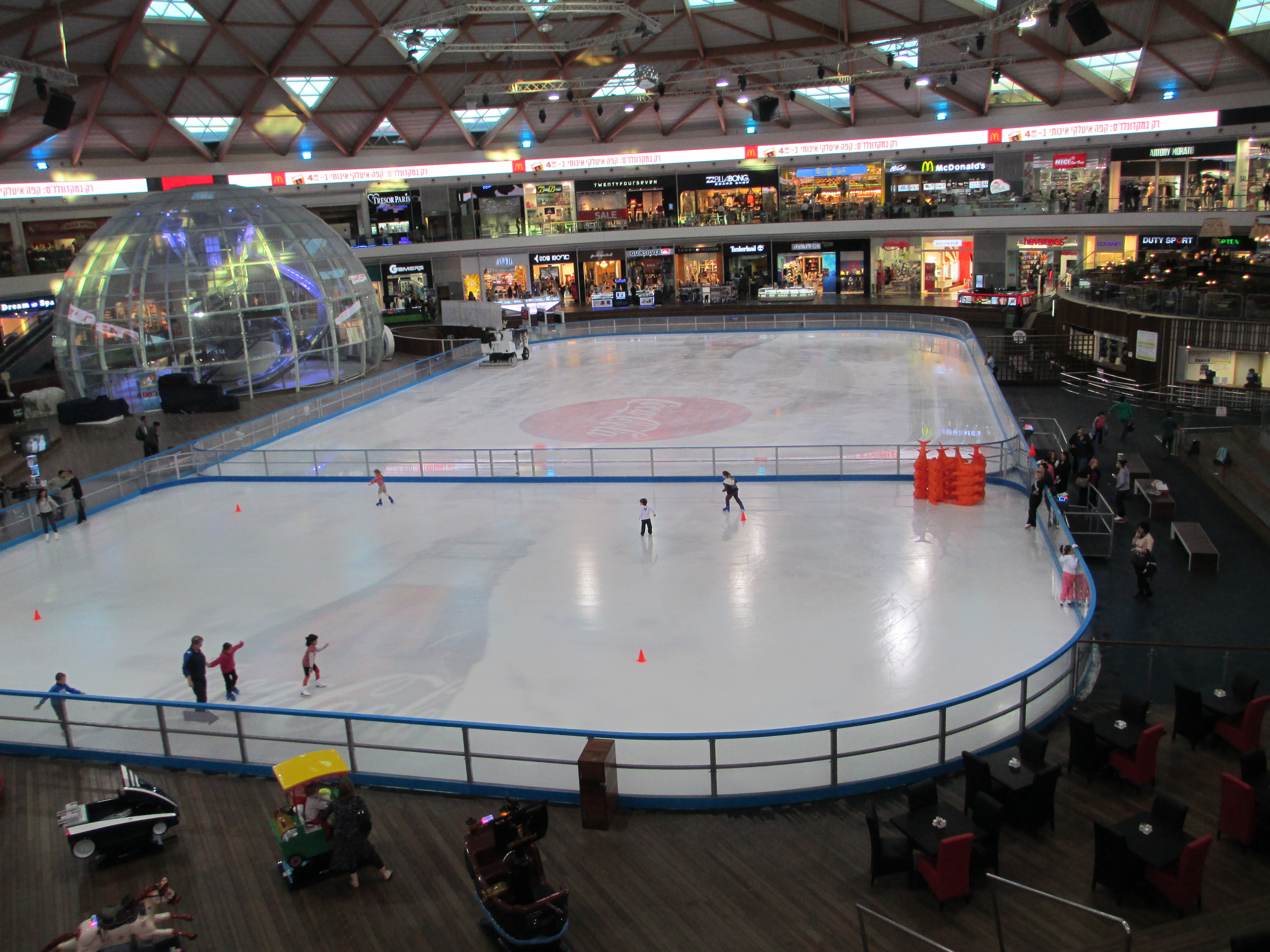 Ice park mall in Eilat